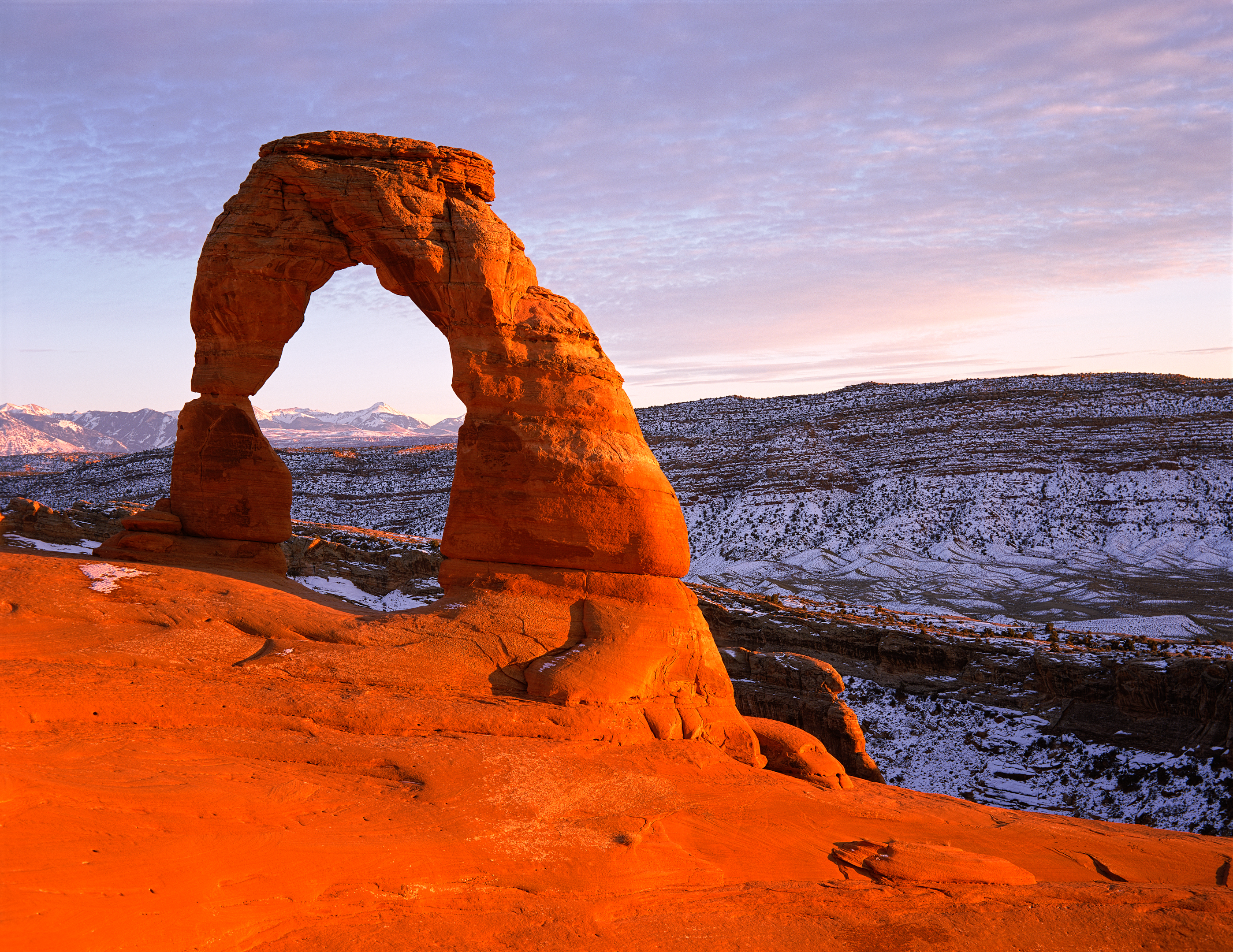 NPS Photo/Neal Herbert. Drum scan from a 4x5 transparency.